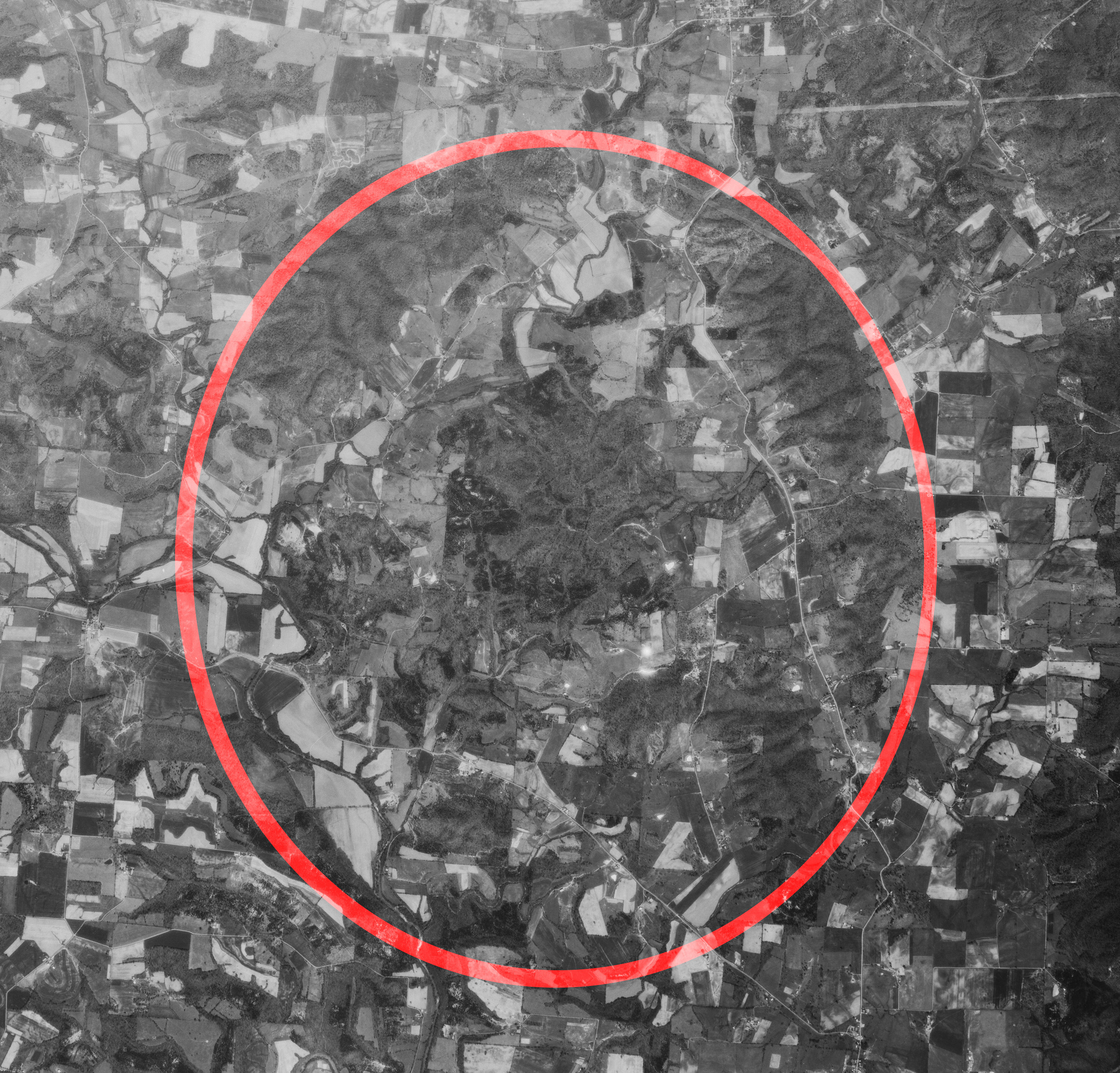 Air photo of the Serpent Mound crater, with red oval showing the approximate perimeter according to K. Milam, 2010. Photo taken in 1974.